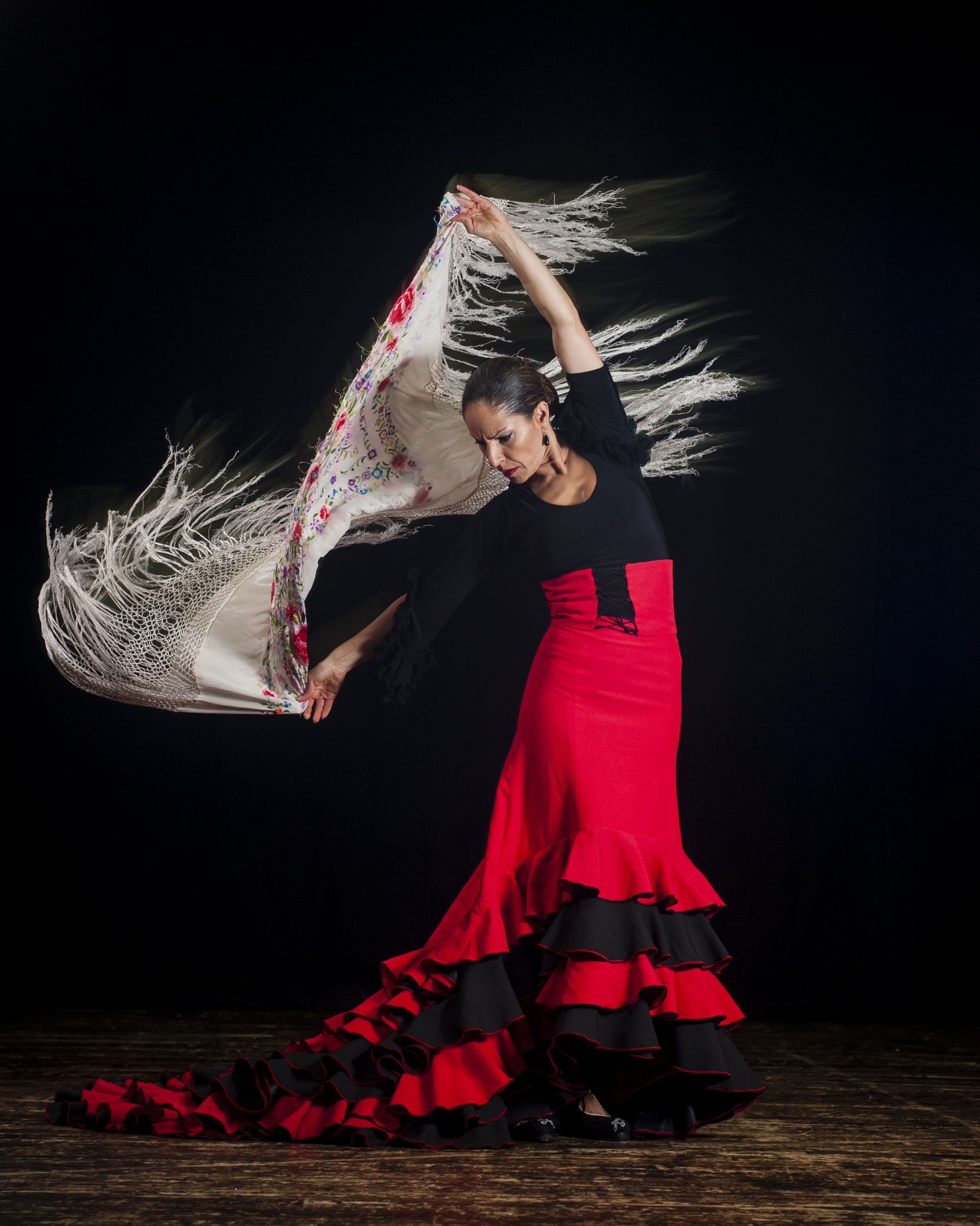 In Collaboration with Louis Weijl